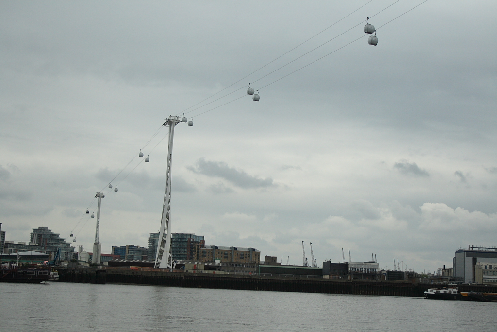 London cable car test seen from O2 Pier on May 2012.